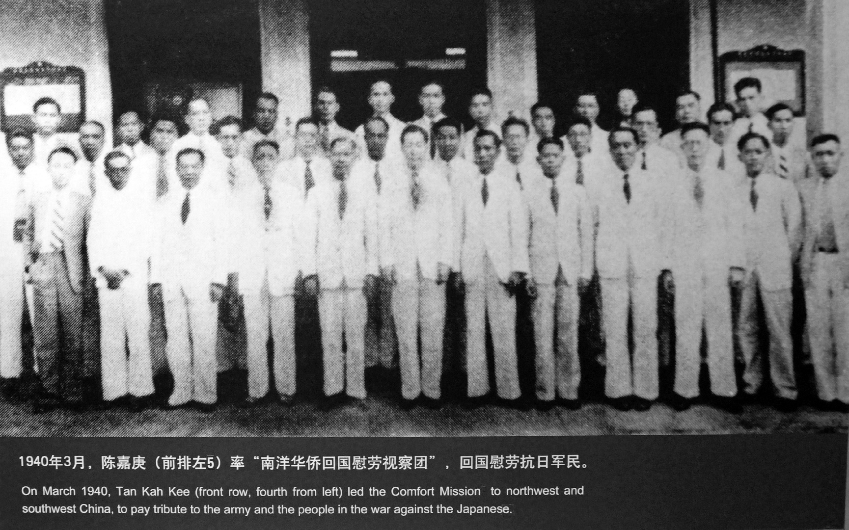 Seok Kim at Aw Boon Hor's Arrival in Sitiawan to Open Ceremony of Haw Par Assembly Hall (Seok Kim third from left; Aw Boon Hor, fourth); Book: No Other Way Out - A Biography of Ong Seok Kim. PJ, Malaysia; Authors: Wang Jianshi, Ong Eng-Joo; Publisher: Strategic Information and Research Development Centre, 2013; Site